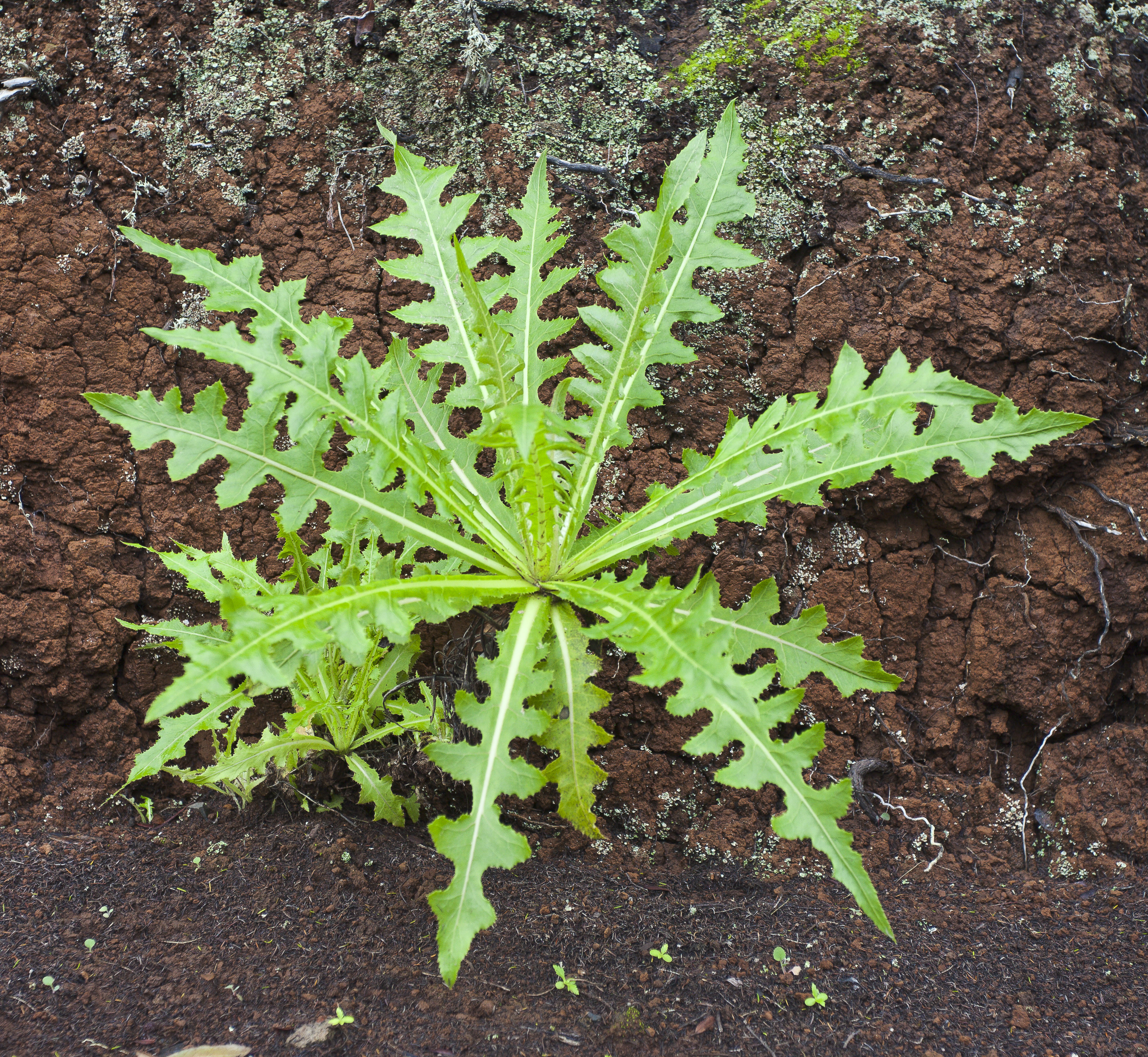 Sonchus hierrensis, La Gomera, Spain